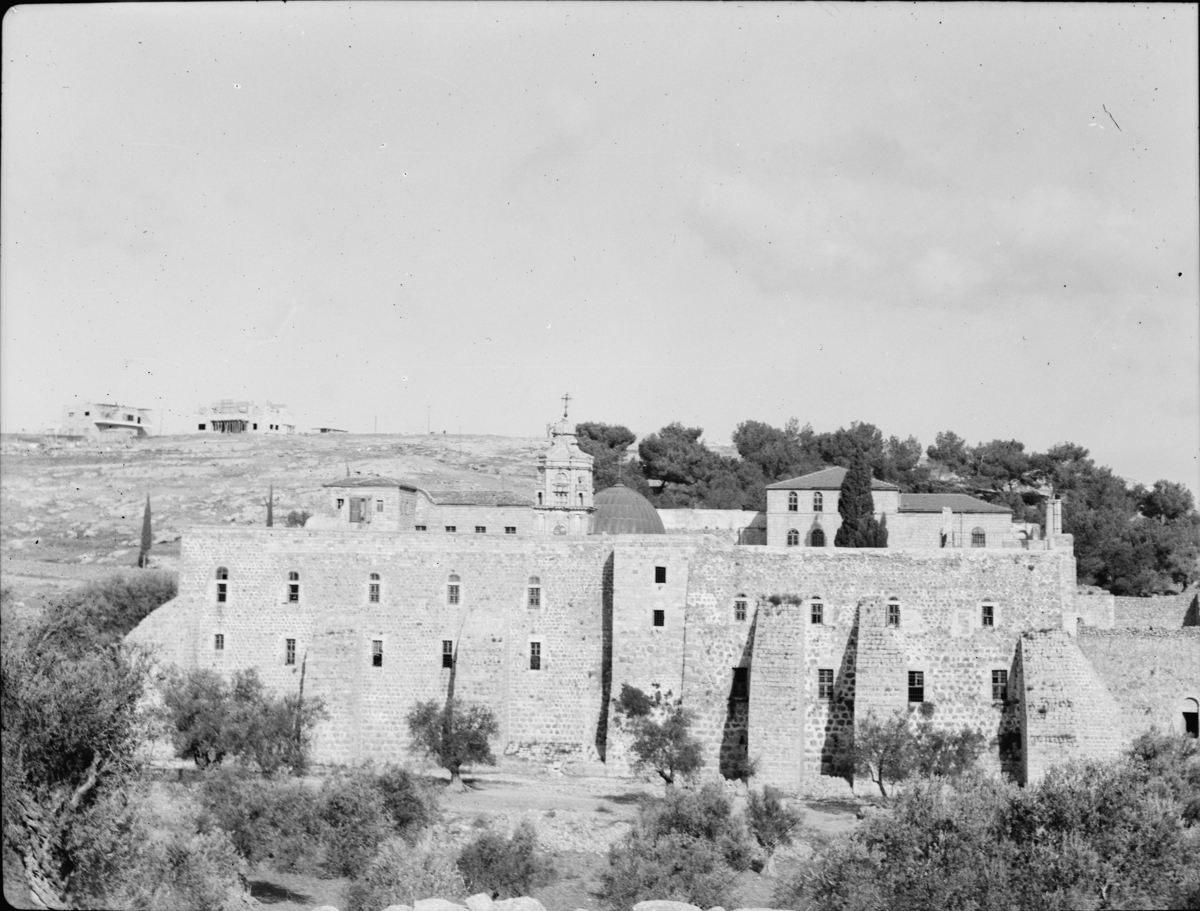 Convent of the Cross from the west